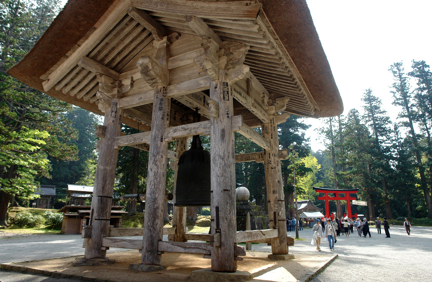 Ideha jinja belfry